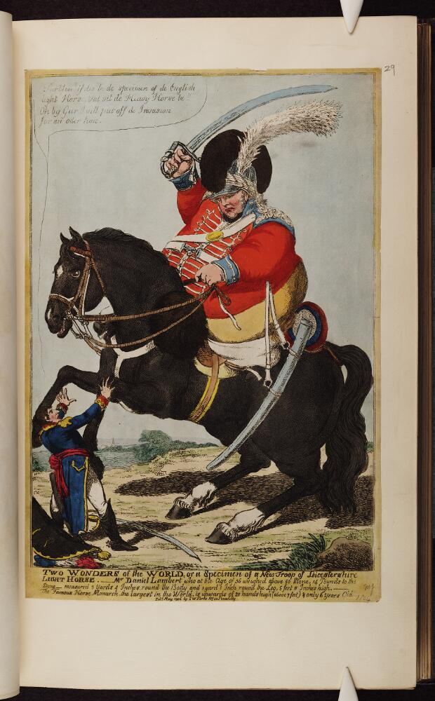 Caricature of Napoleon I. (British political cartoon)